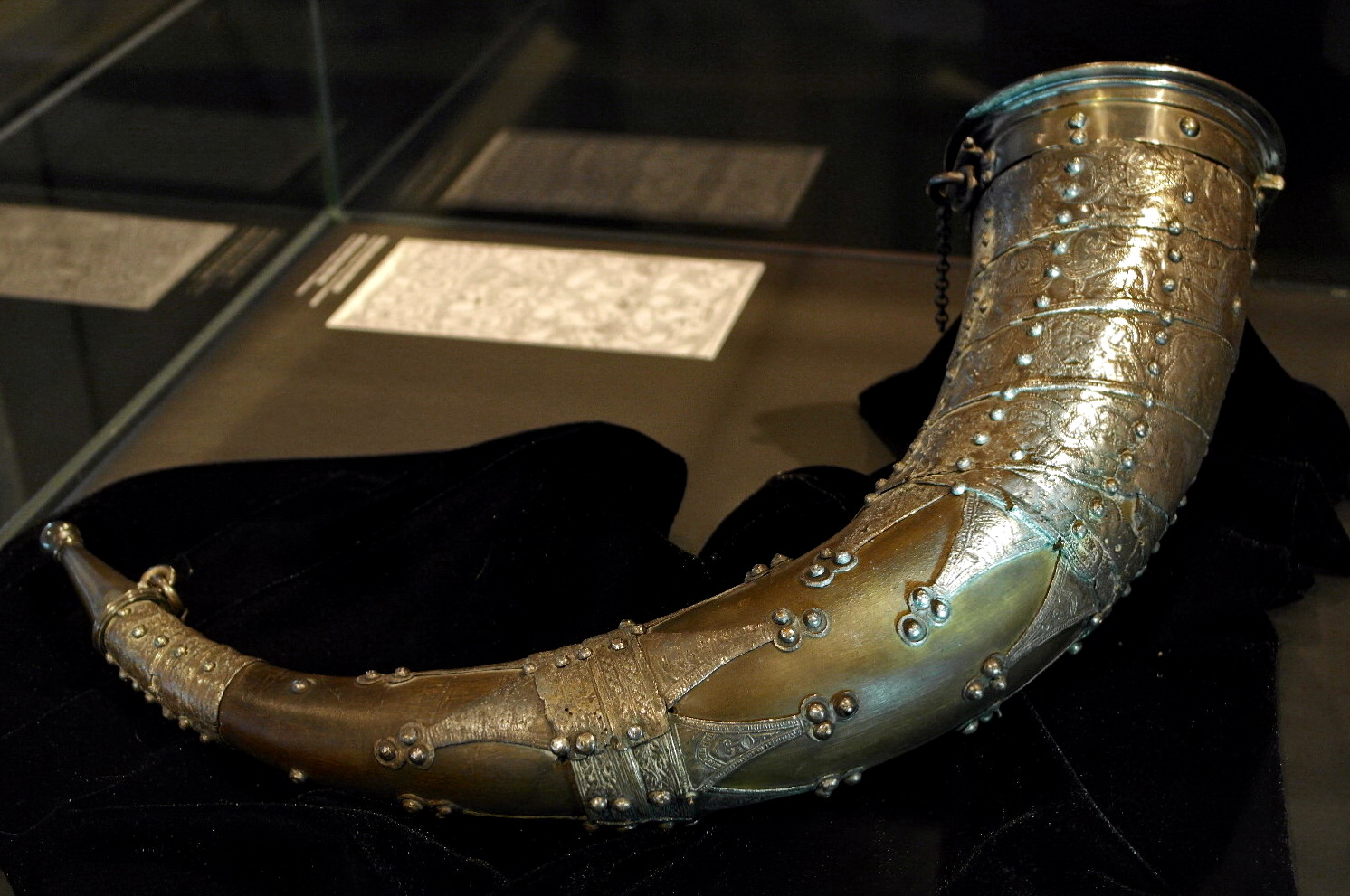 Scandinavian(?) drinking horn (10th c) serving as a reliquary horn in the Treasury of the Basilica of Our Lady, Maastricht, the Netherlands.